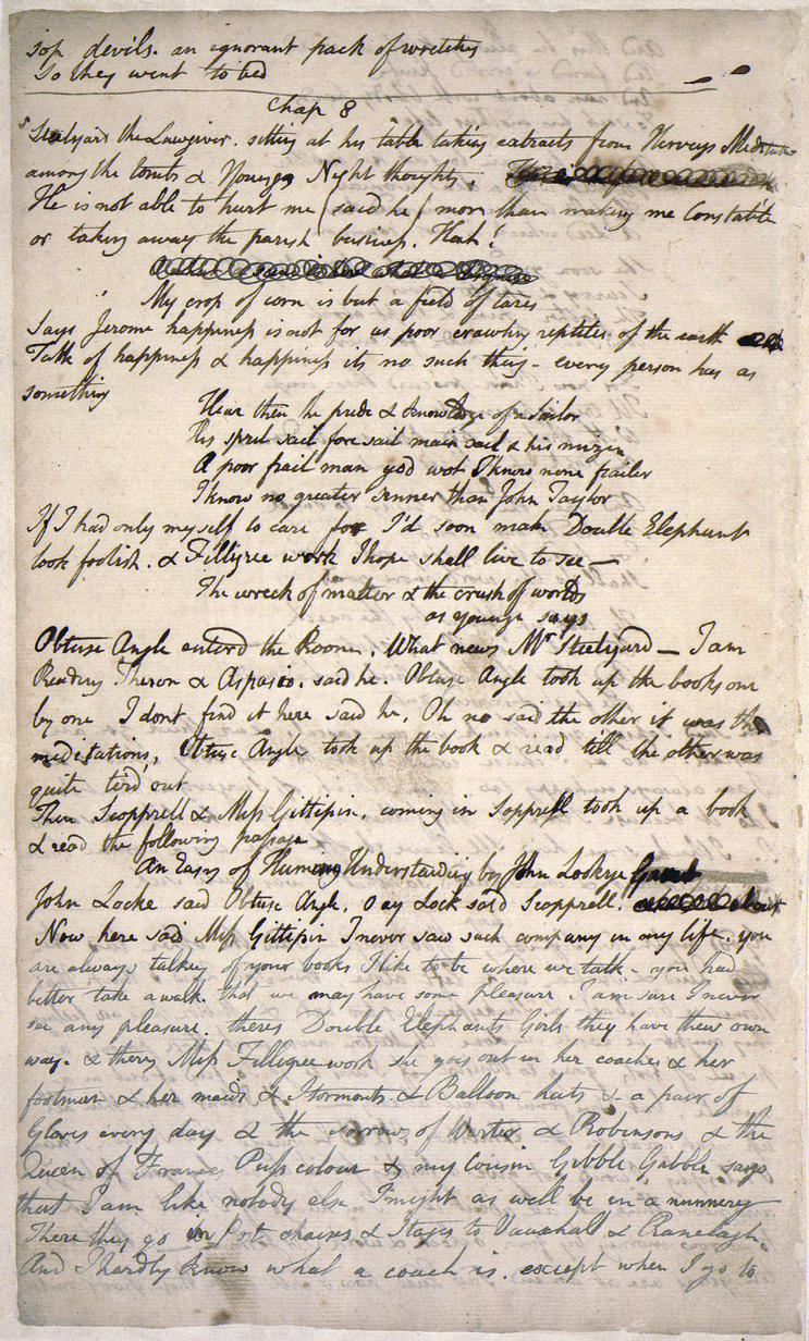 Page 8 of the only known MS copy of William Blake's An Island in the Moon